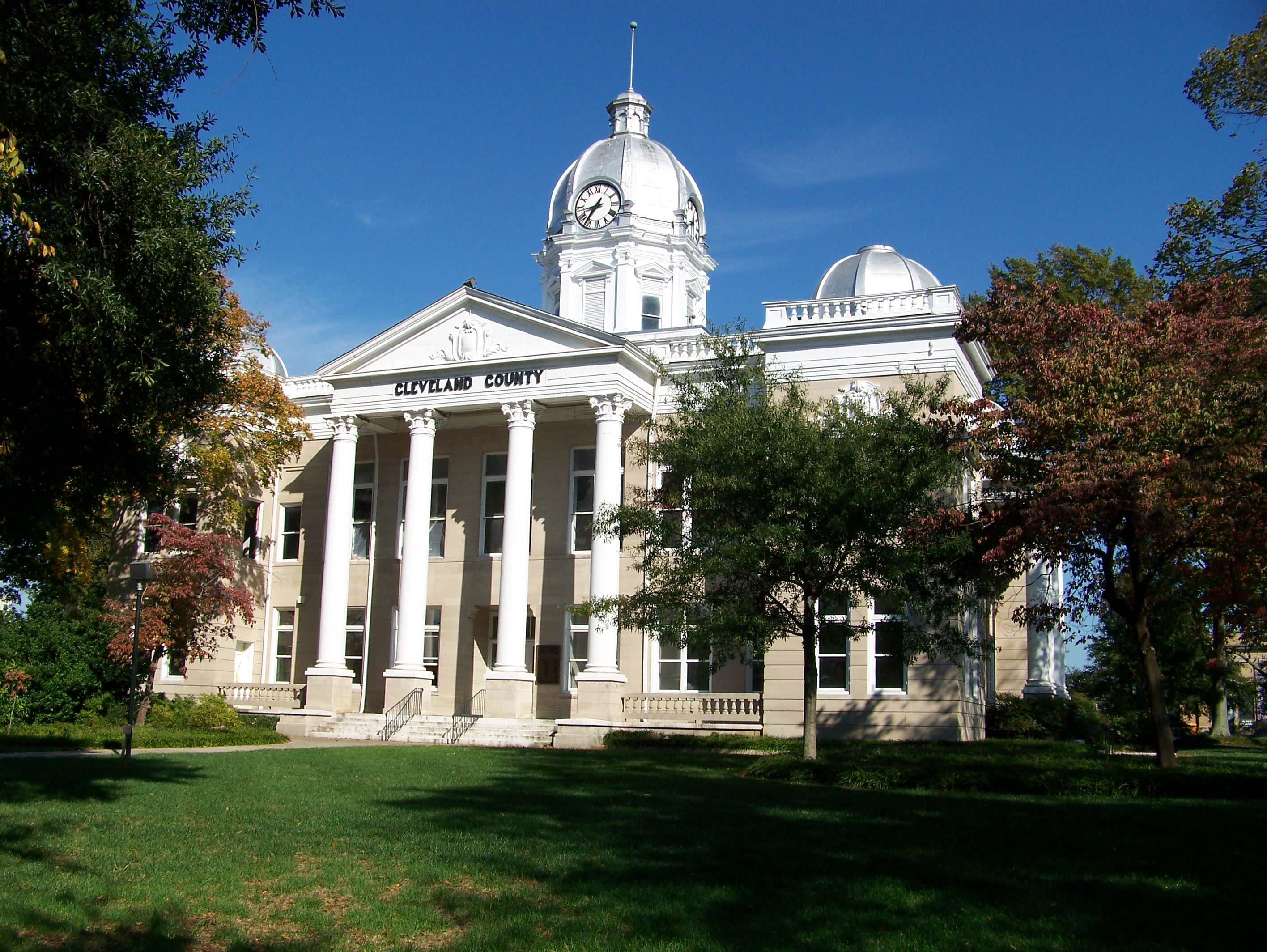 Central Shelby Historic District Also listed individually on the National Register of Historic Places